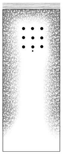 Graphic for the Erremontea game